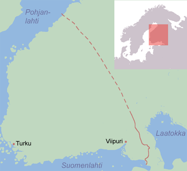 The border between Novgorod and Sweden as it may have been defined in the treaty of Nöteborg 1323. Map with Finnish captions. For the English translation, see Image:Treaty-of-Nöteborg.png.